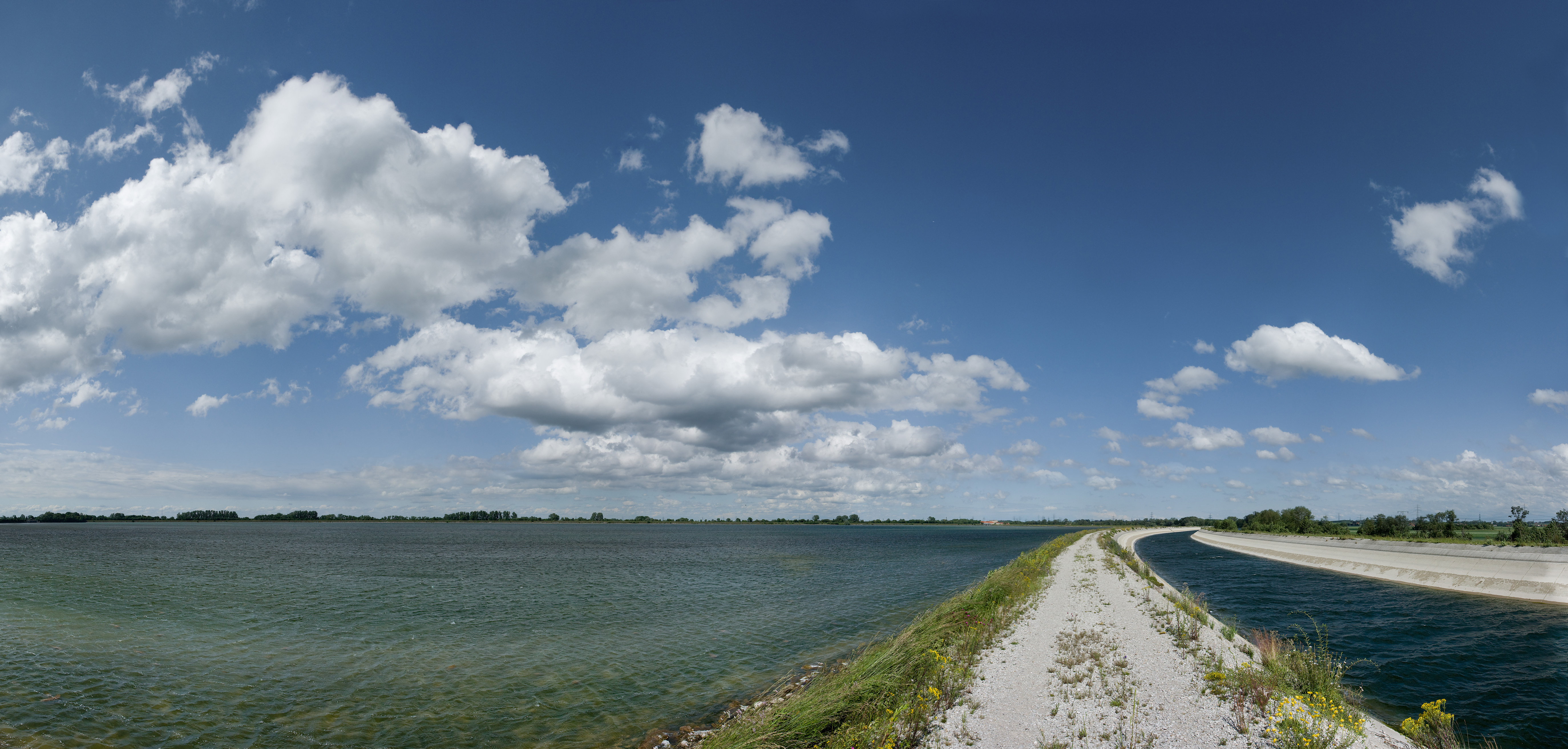 Ismaninger Speichersee and Mittlerer Isarkanal. The Ismaninger Speichersee is an artificial lake, northeast of Munich, between Ismaning and Neufinsing.